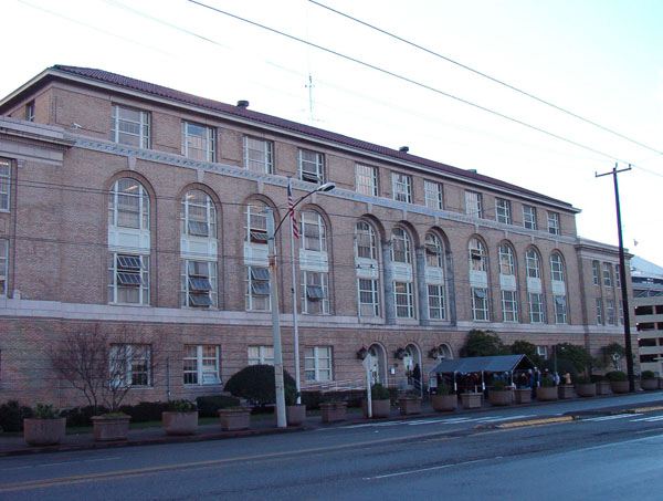 Photo of the old INS building in Seattle on Airport Way S, taken from a federal government website on its auction.